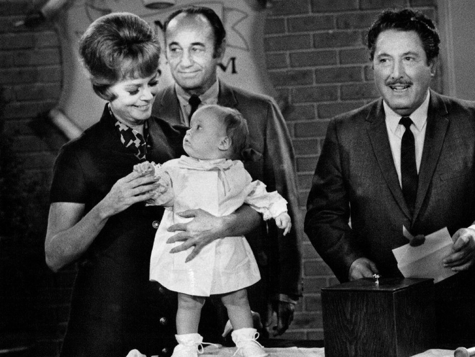 Photo of June Lockhart as Dr. Janet Craig and guest stars Harvey Karels and Harold Peary from the television program Petticoat Junction. Peary is best remembered as "The Great Gildersleeve" from radio and films.